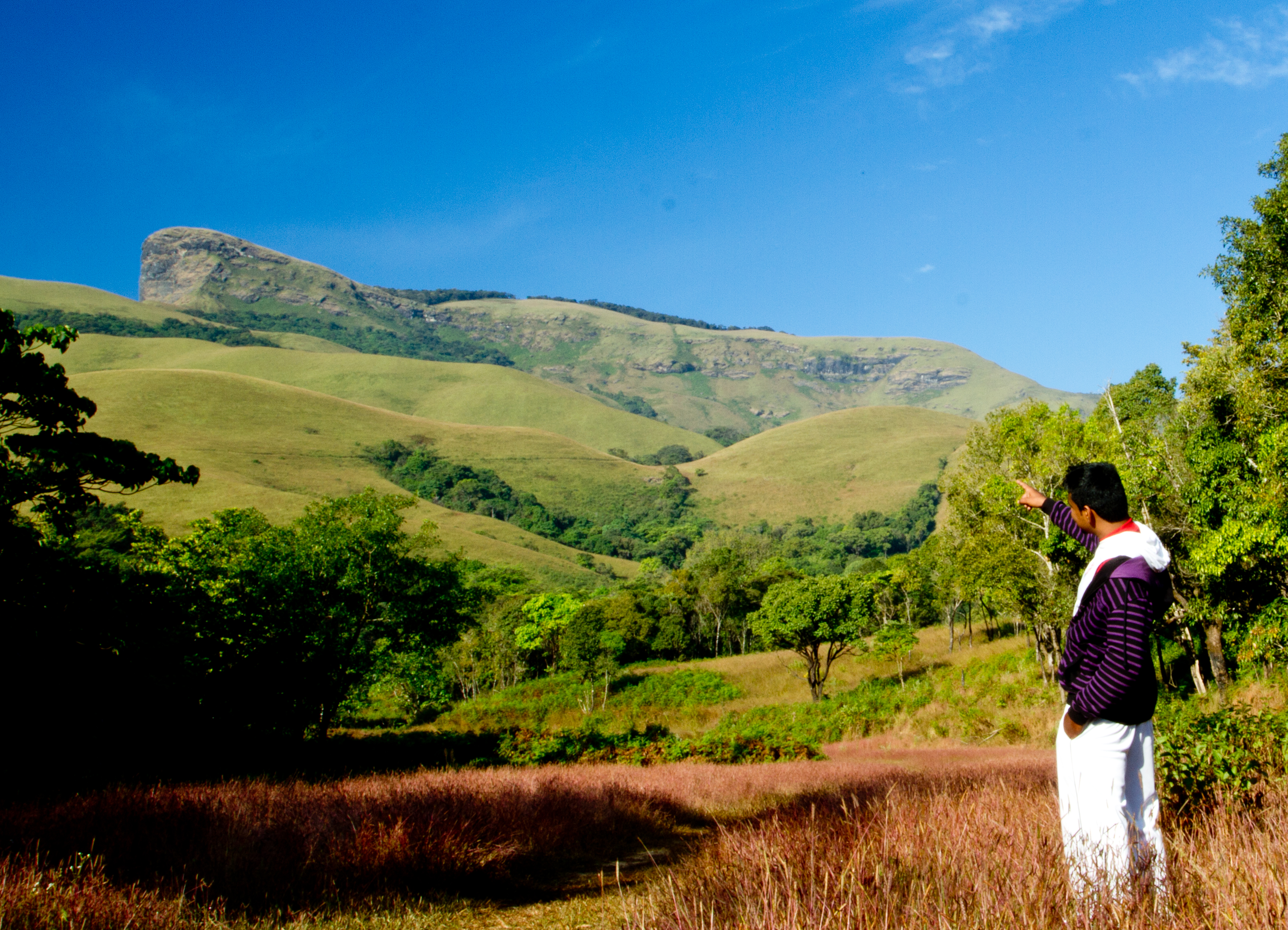 the long view of Kudermukh hill which is 5 kms trek away